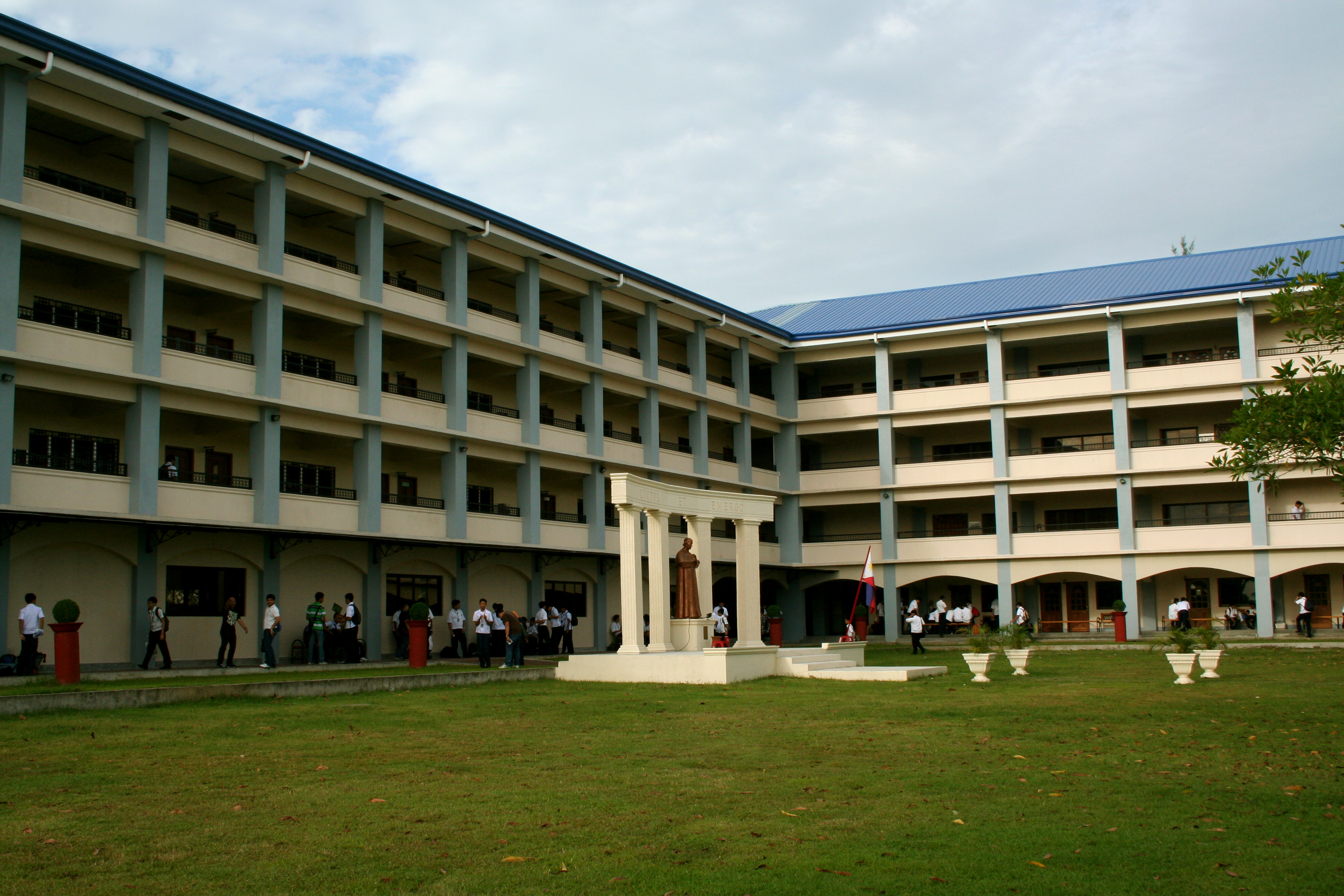 An image of Don Bosco Academy, Pampanga